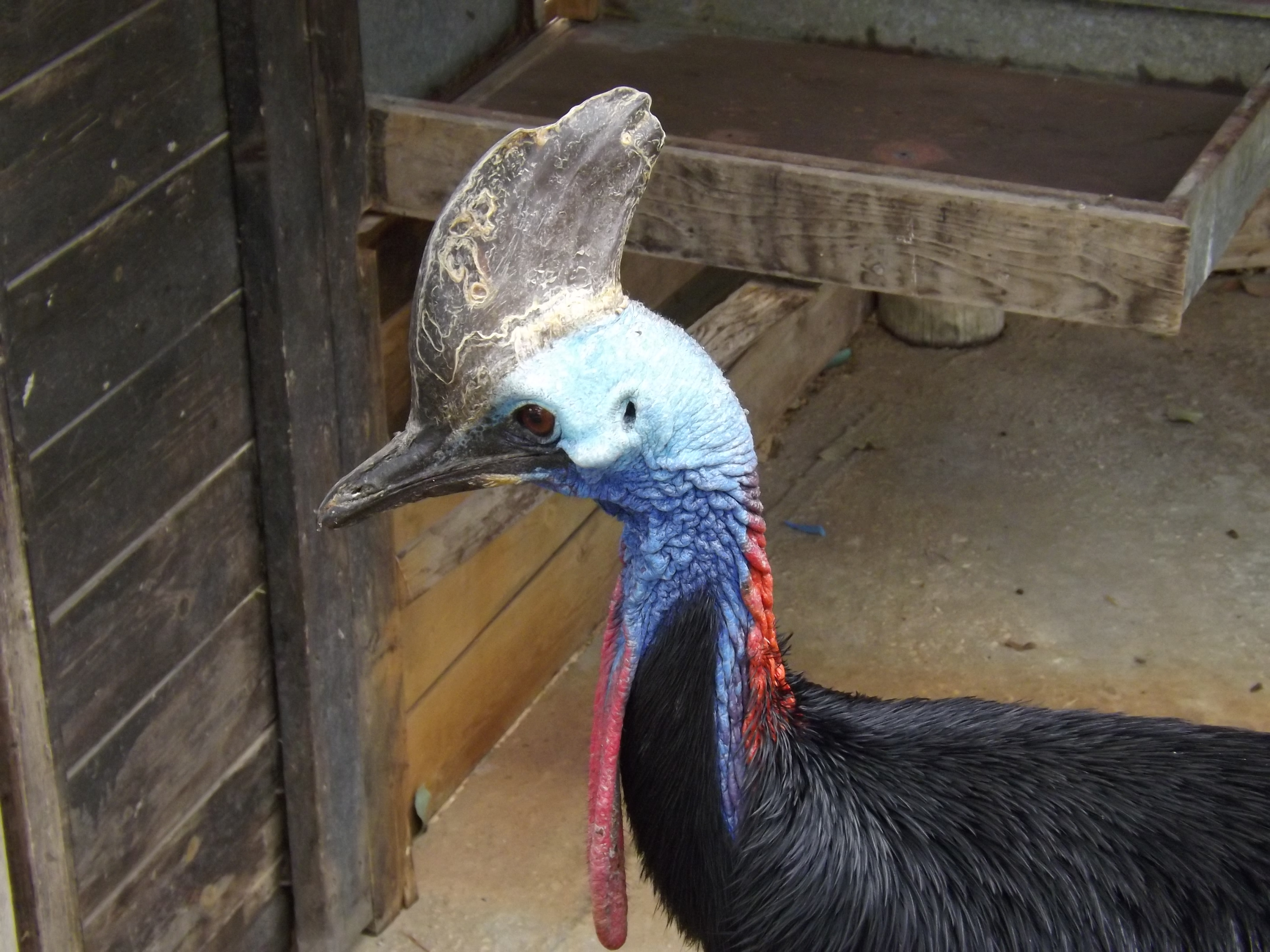 A Double-wattled Cassowary (Casuarius casuarius) in the Australian section of the Jerusalem Biblical Zoo.